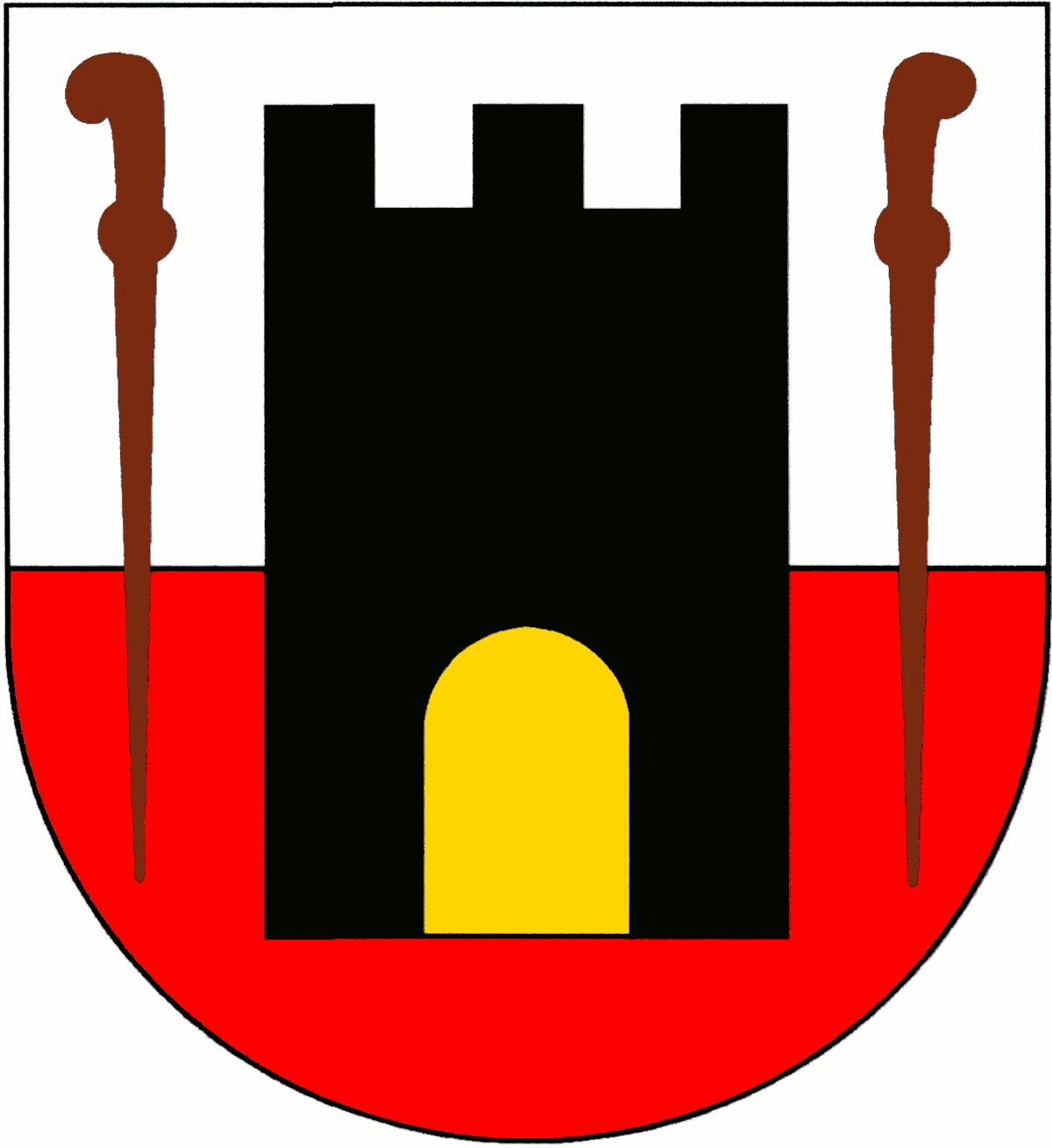 Coat of arms of Drmoul municipality, Cheb District, Carlsbad Region, Czech Republic.